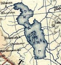 Turkey in Asia, Asia Minor, and Transcaucasia. By Keith Johnston, F.R.S.E. Engraved & printed by W. & A.K. Johnston, Edinburgh. William Blackwood & Sons, Edinburgh & London, (1861)